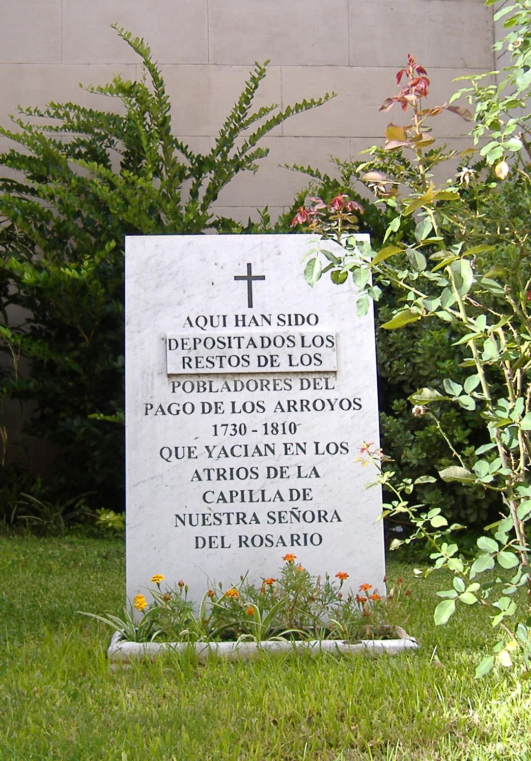 "Here have been laid the remains of the population of the Pago de los Arroyos 1730–1810 who used to lie in the atria of the Chapel of Our Lady of the Rosary." Pago de los Arroyos (Land of the Streams) is the ancient name of the Rosario region and around. I, Pablo D. Flores, took this picture on 1 March 2006.